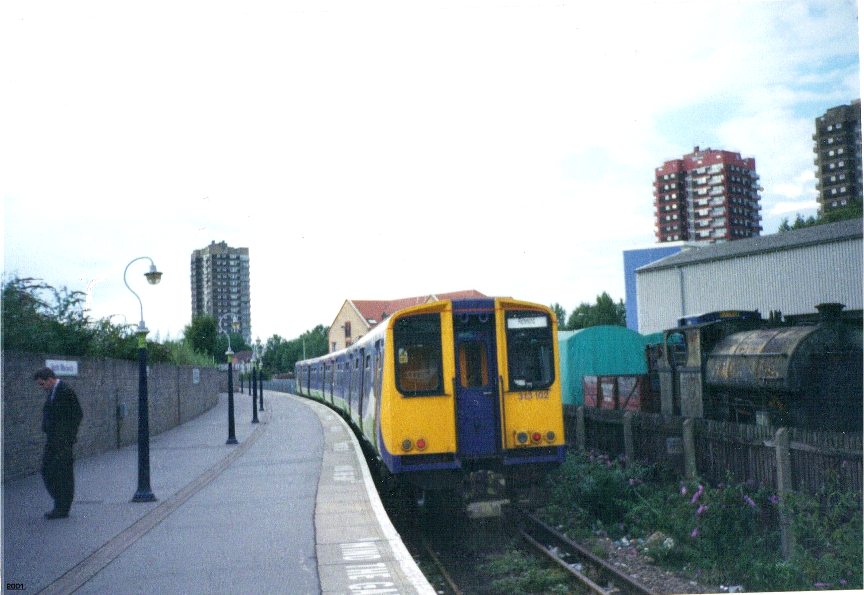 I took this picture of now shut North Woolwich station my self in the year 2001 and donate it to the public domain.